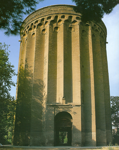 Toghrul Tower, Ray, Iran. 12th century tomb of Seljuk ruler Toğrül.